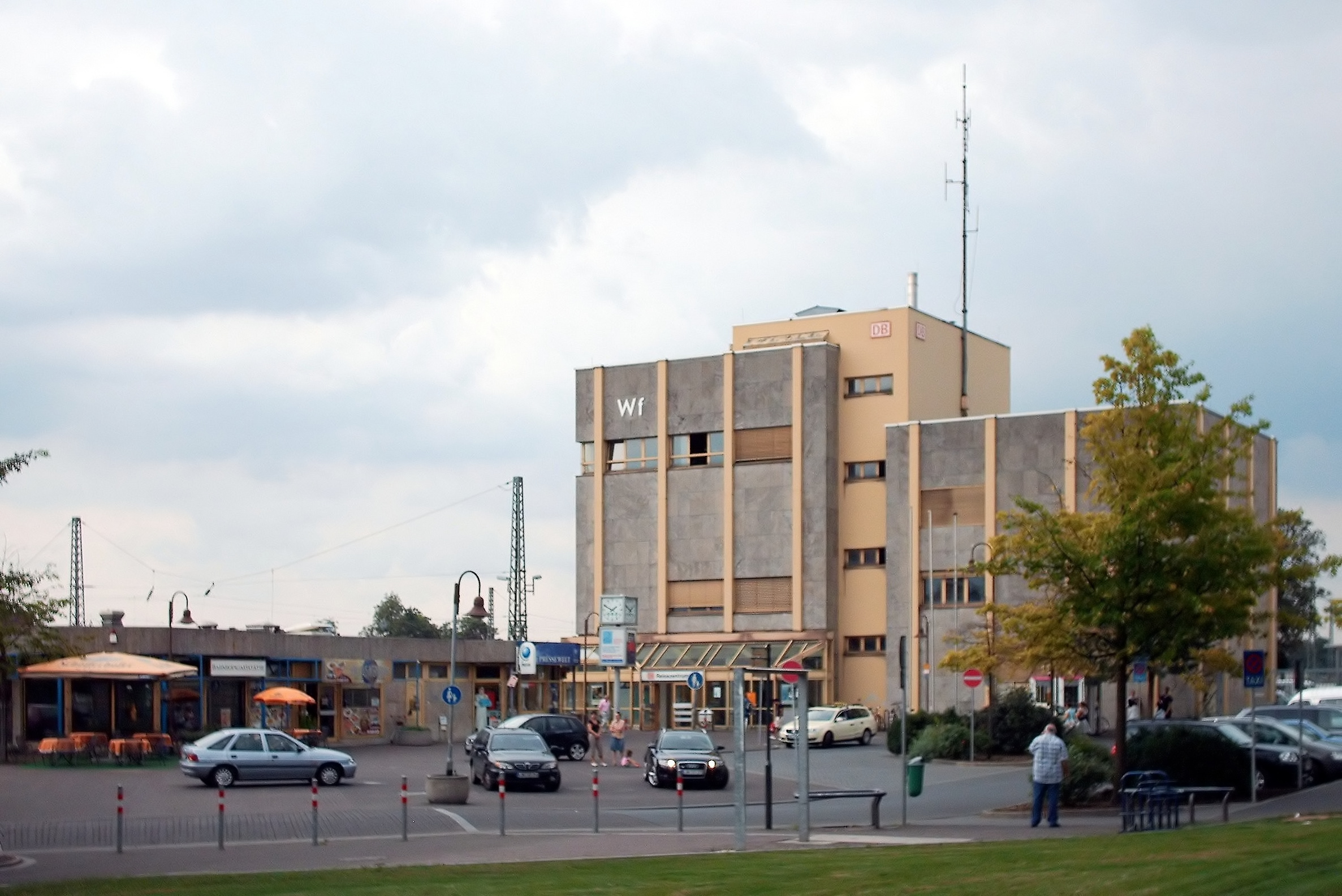 Wetzlar station, Wetzlar, Germany check usage